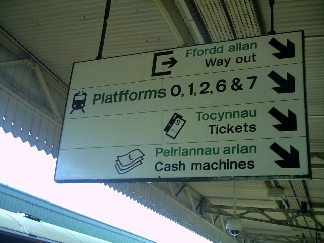 Cardiff Central railway station: bilingual sign on platforms 3, 4 and 5